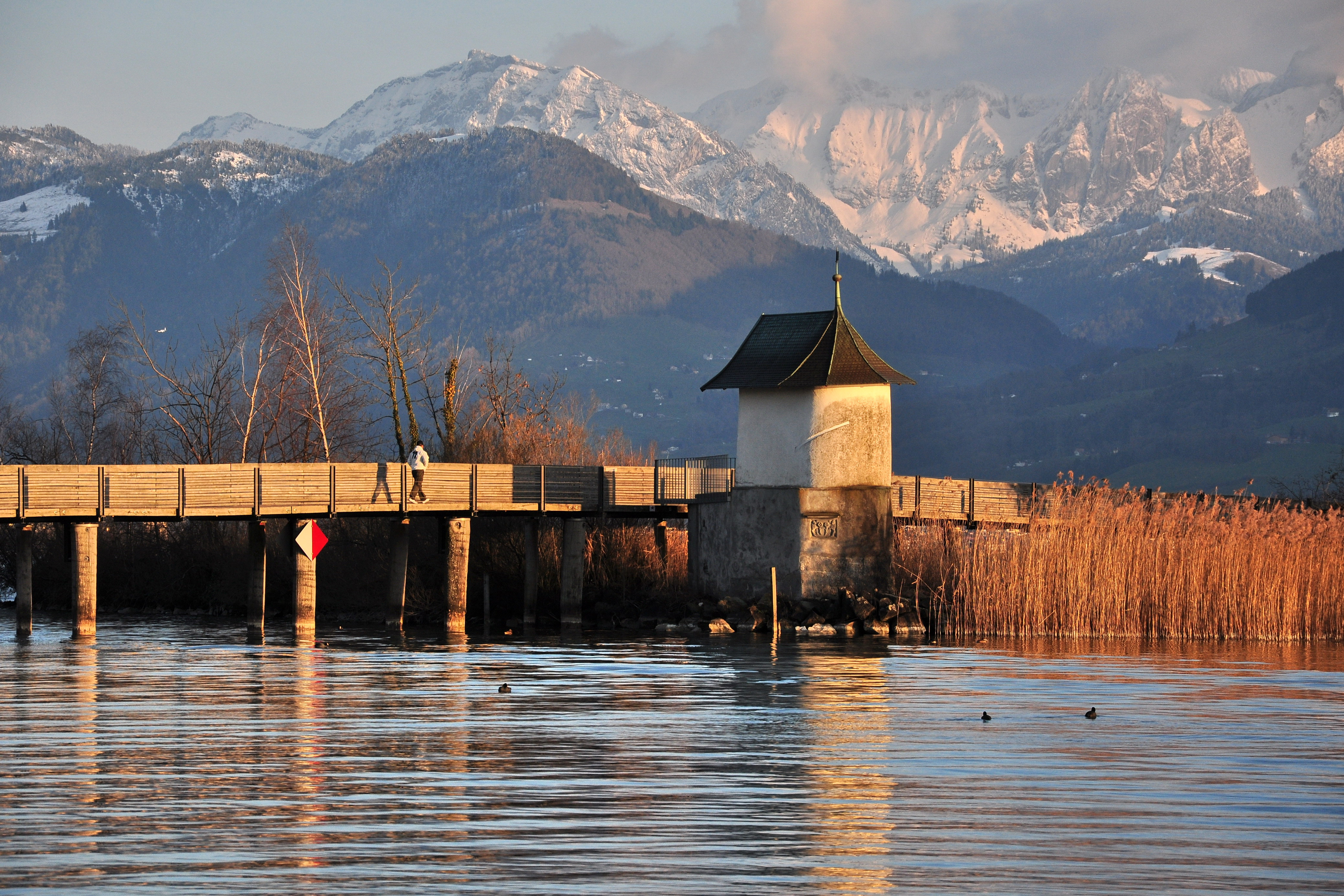 Rapperswil (Switzerland) : Holzbrücke (wooden bridge) between Rapperswil and Hurden, crossing Obersee (upper Lake Zurich), and «Heilig Hüsli» chapel.